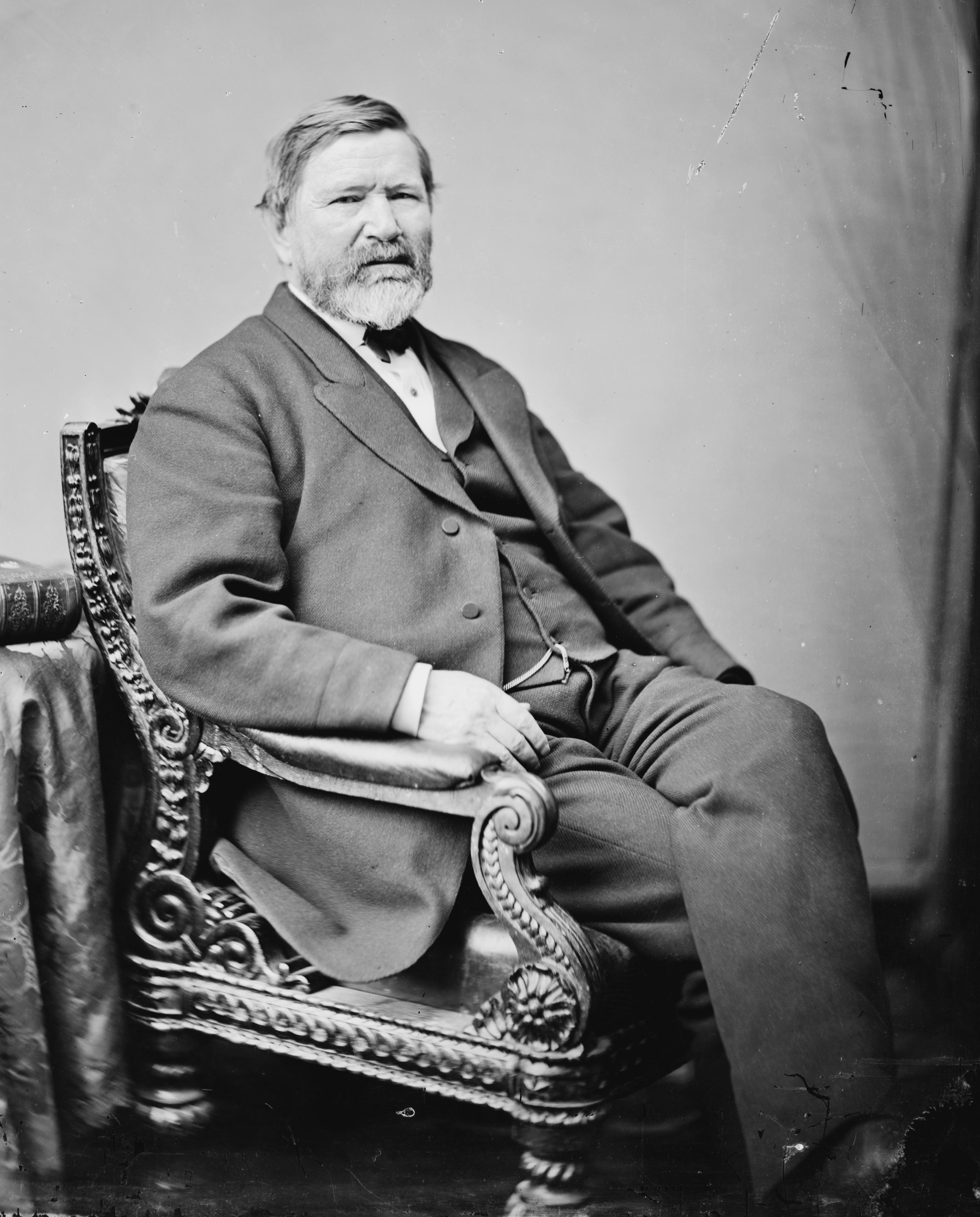 Robert C. Schenck. Library of Congress description: "Hon. Robert C. Schenck of Ohio"